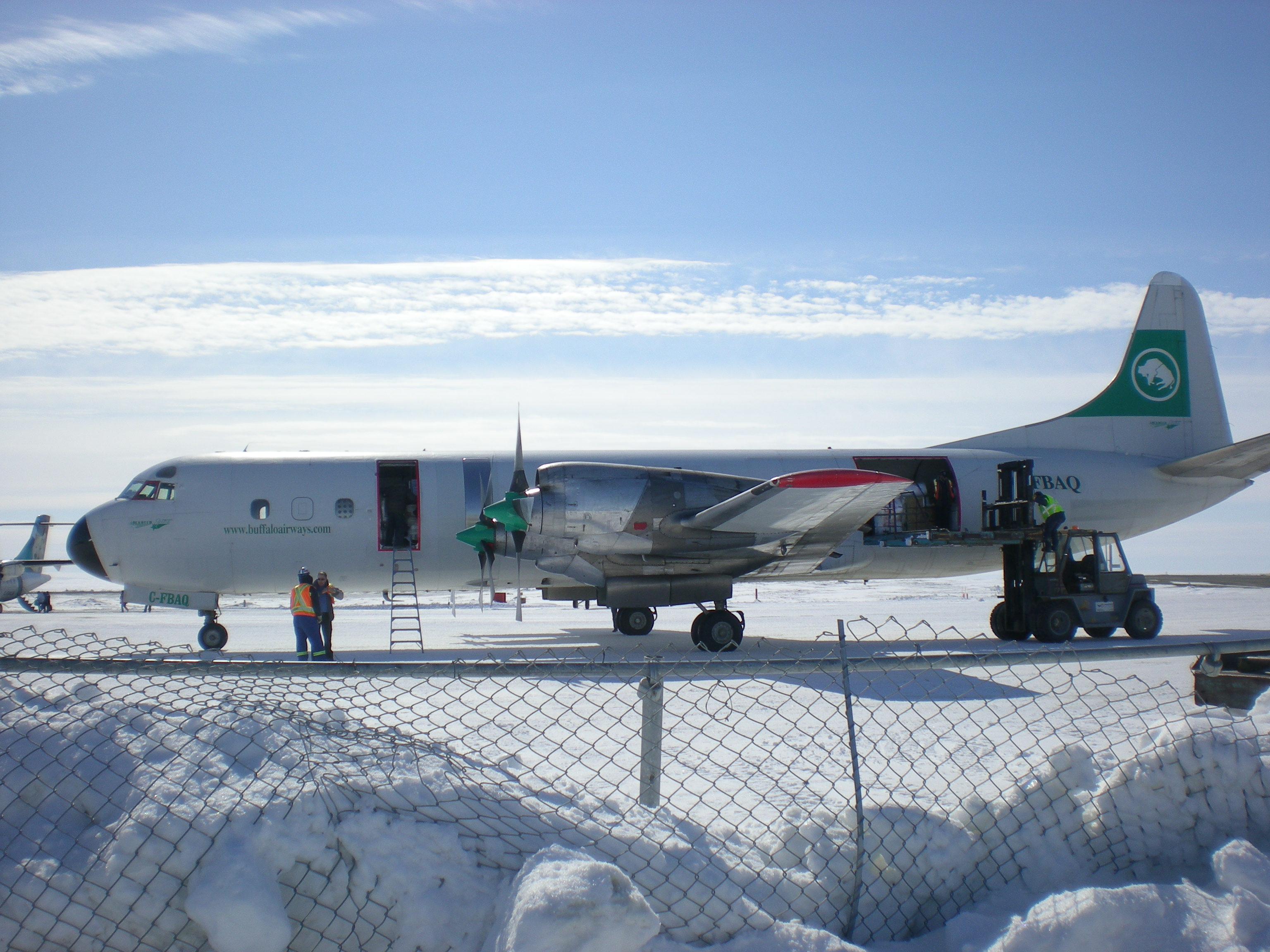 Buffalo Airways Lockheed L-188 Electra C-FBAQ at Cambridge Bay Airport